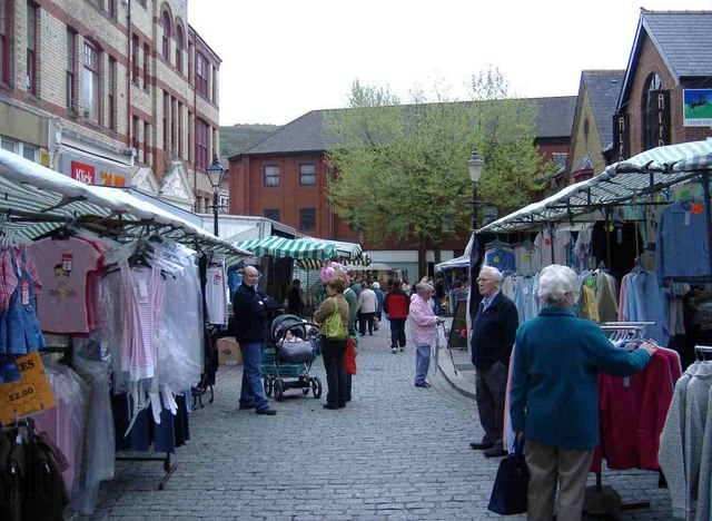 Market day, Pontypridd